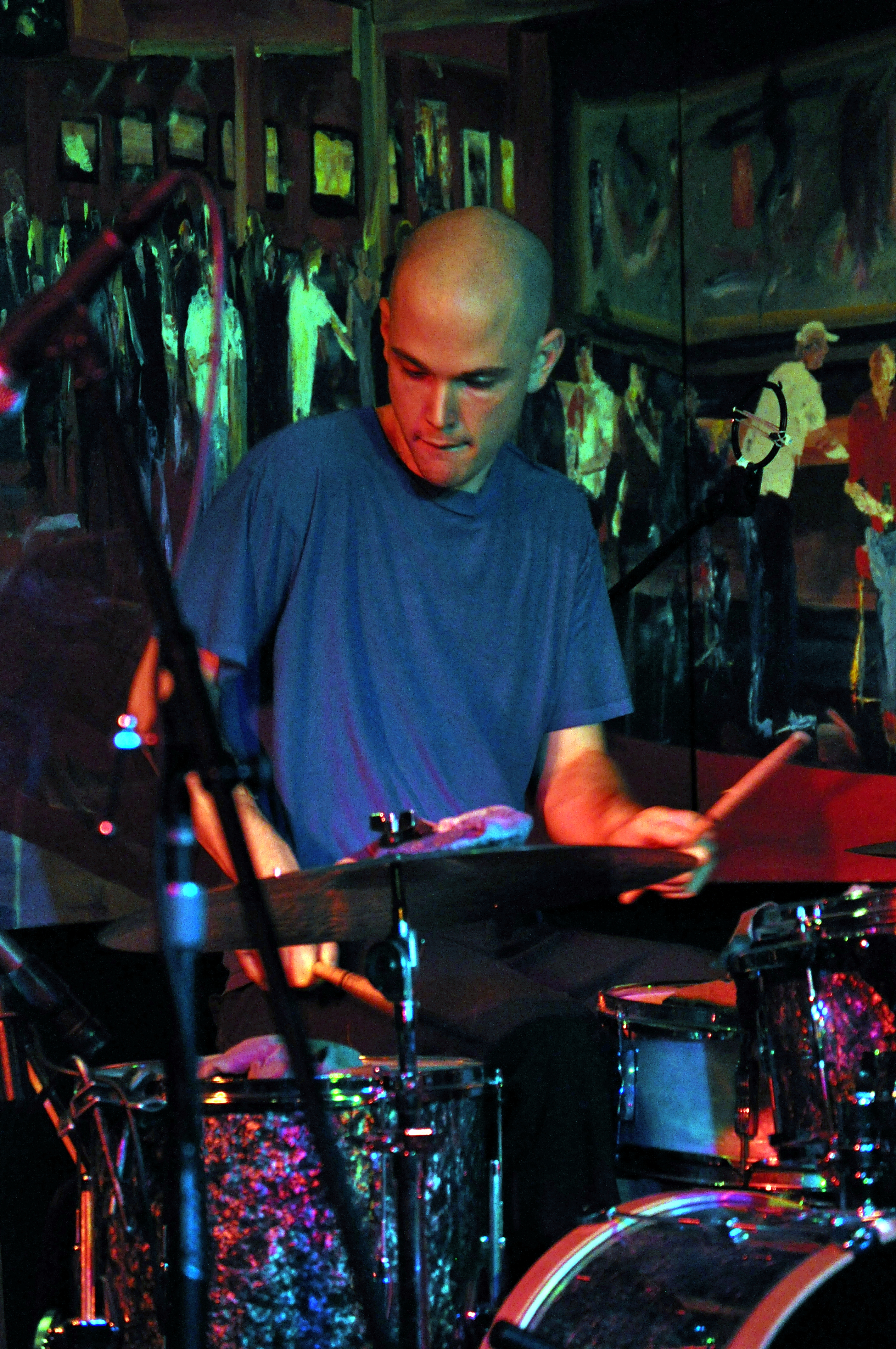 Drummer Chris Corsano performing with saxophonist Wally Shoup (not shown) at the Sunset Tavern in Ballard, Seattle, Washington, USA.